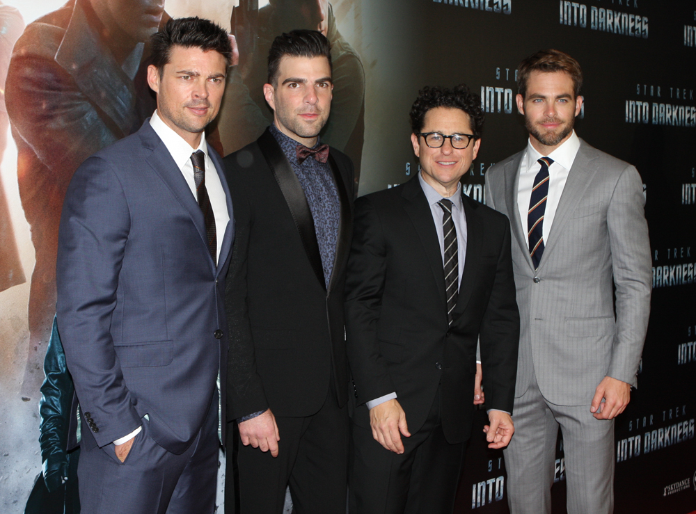 L to R: Karl Urban, Zachary Quinto, J. J. Abrams, and Chris Pine, at the Star Trek Into Darkness in Sydney, Australia movie premiere, in April 2013